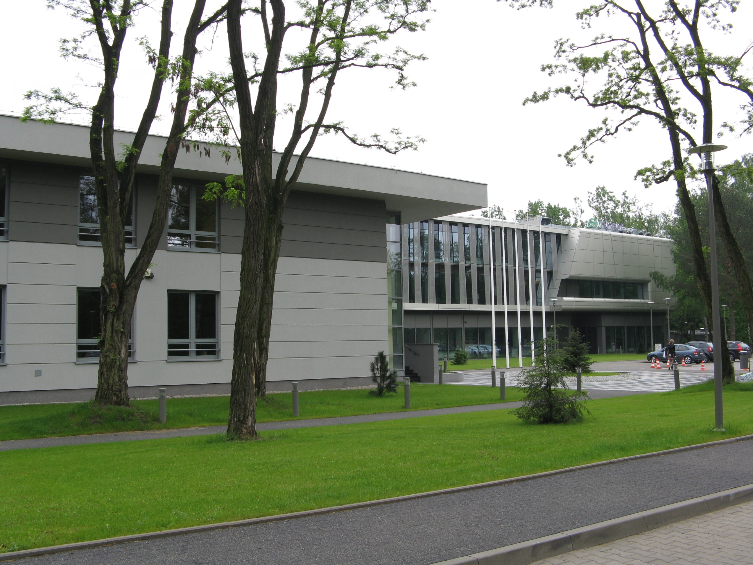 Łódź Regional Park of Science and Technology - Bionanopark